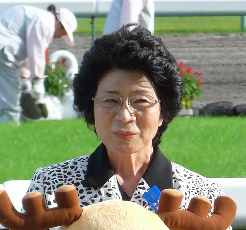 Hideko-Kondoh20101010